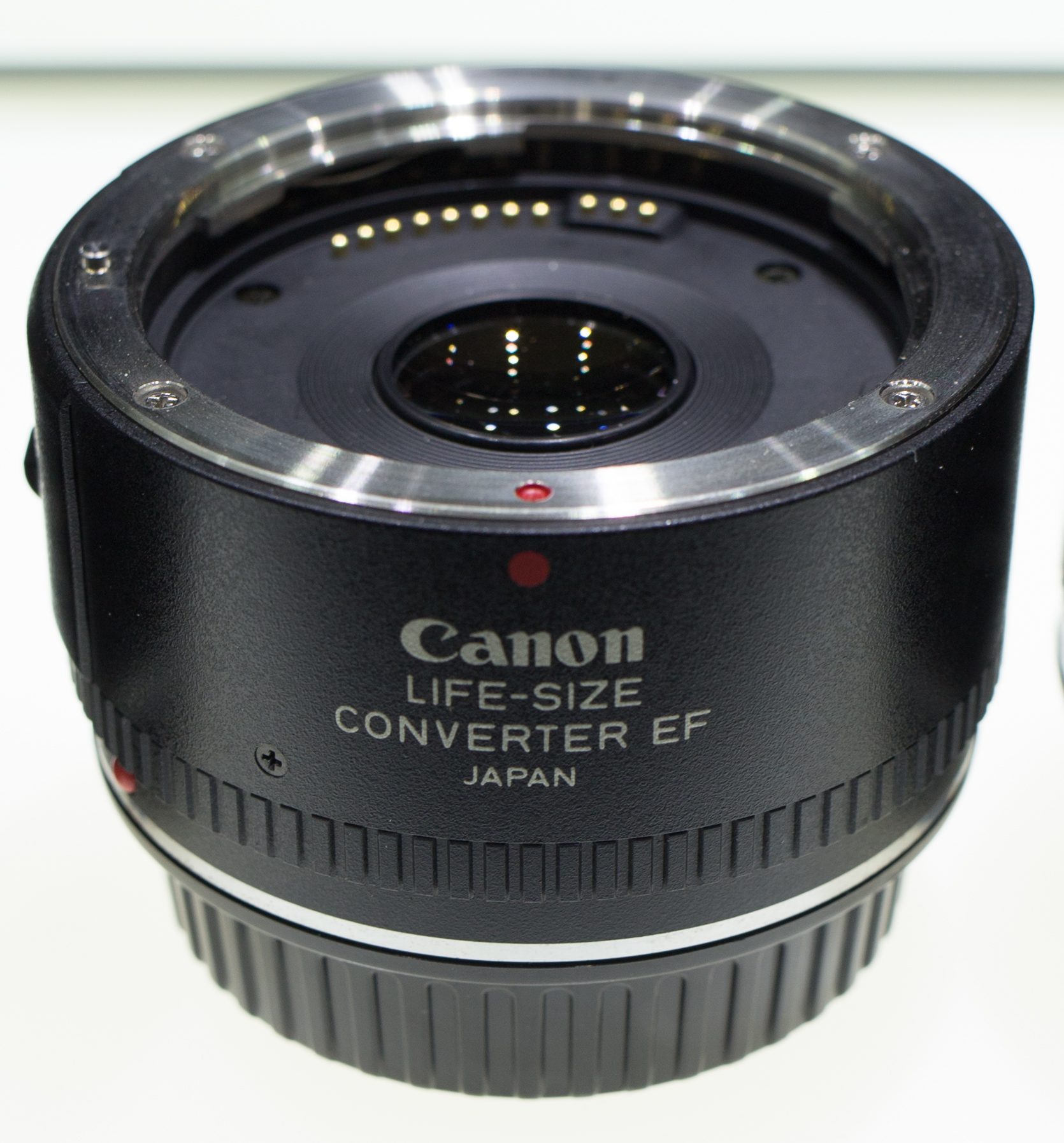 This is a image Canon LIFE-SIZE Converter for the EF 50mm f/2.5 Compact Macro to get a magnification up to 1:1